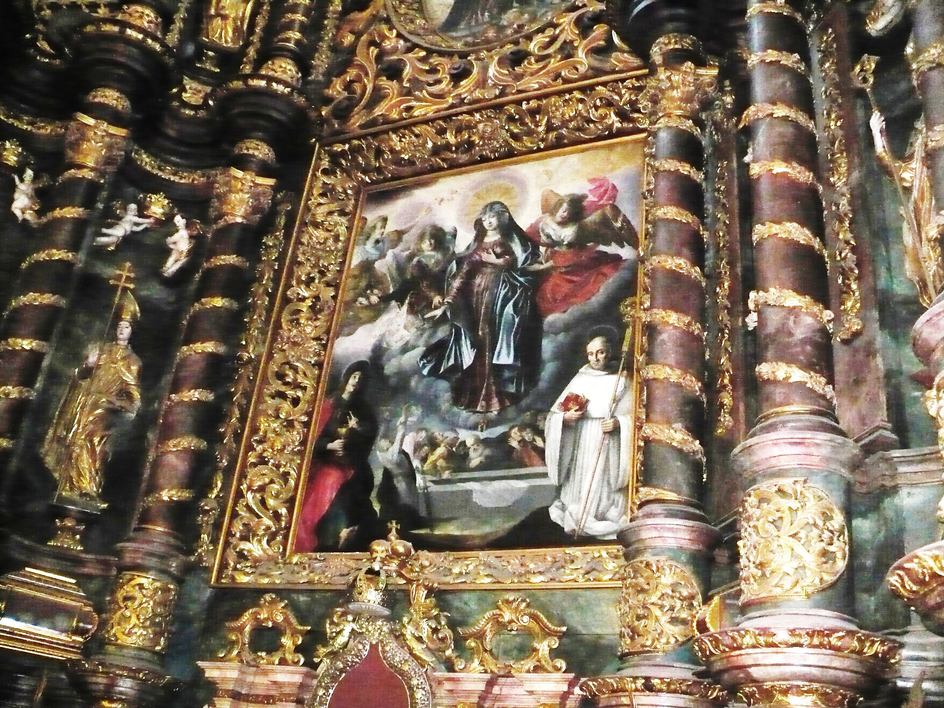 "Basilica Minor"in Koronowo-central altar